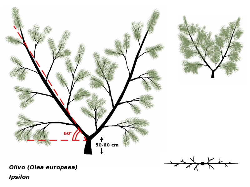 Olive-tree growing systems: ipsilon form